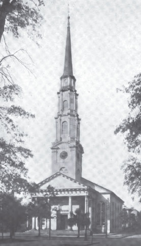 Exterior of Independent Presbyterian Church in Savannah, GA.